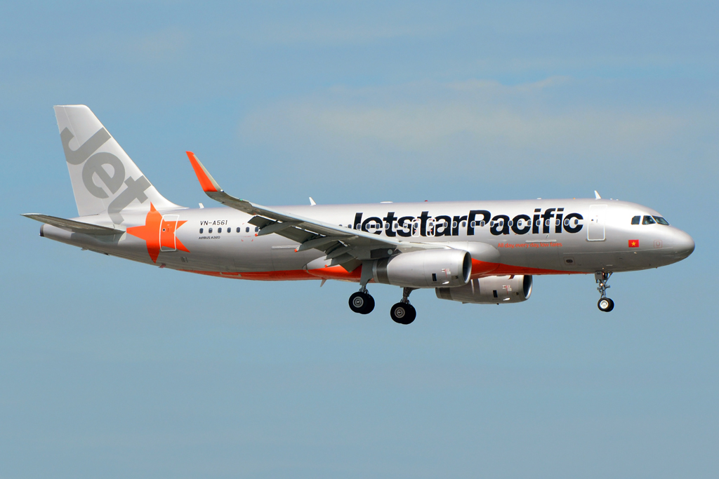 Jetstar Pacific new livery.